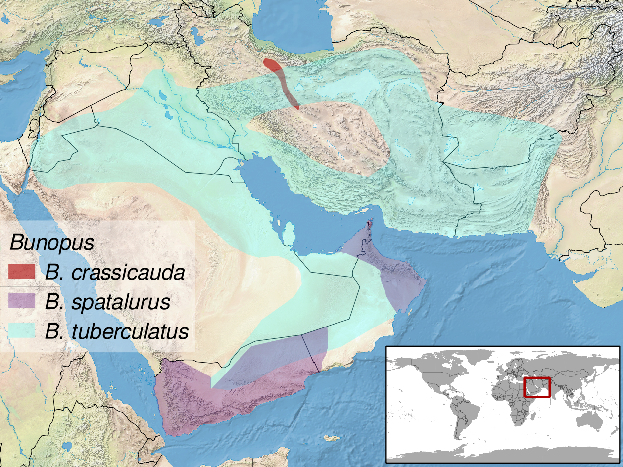 geographic distribution of the genus Bunopus included species: Bunopus crassicauda, Bunopus spatalurus and Bunopus tuberculatus